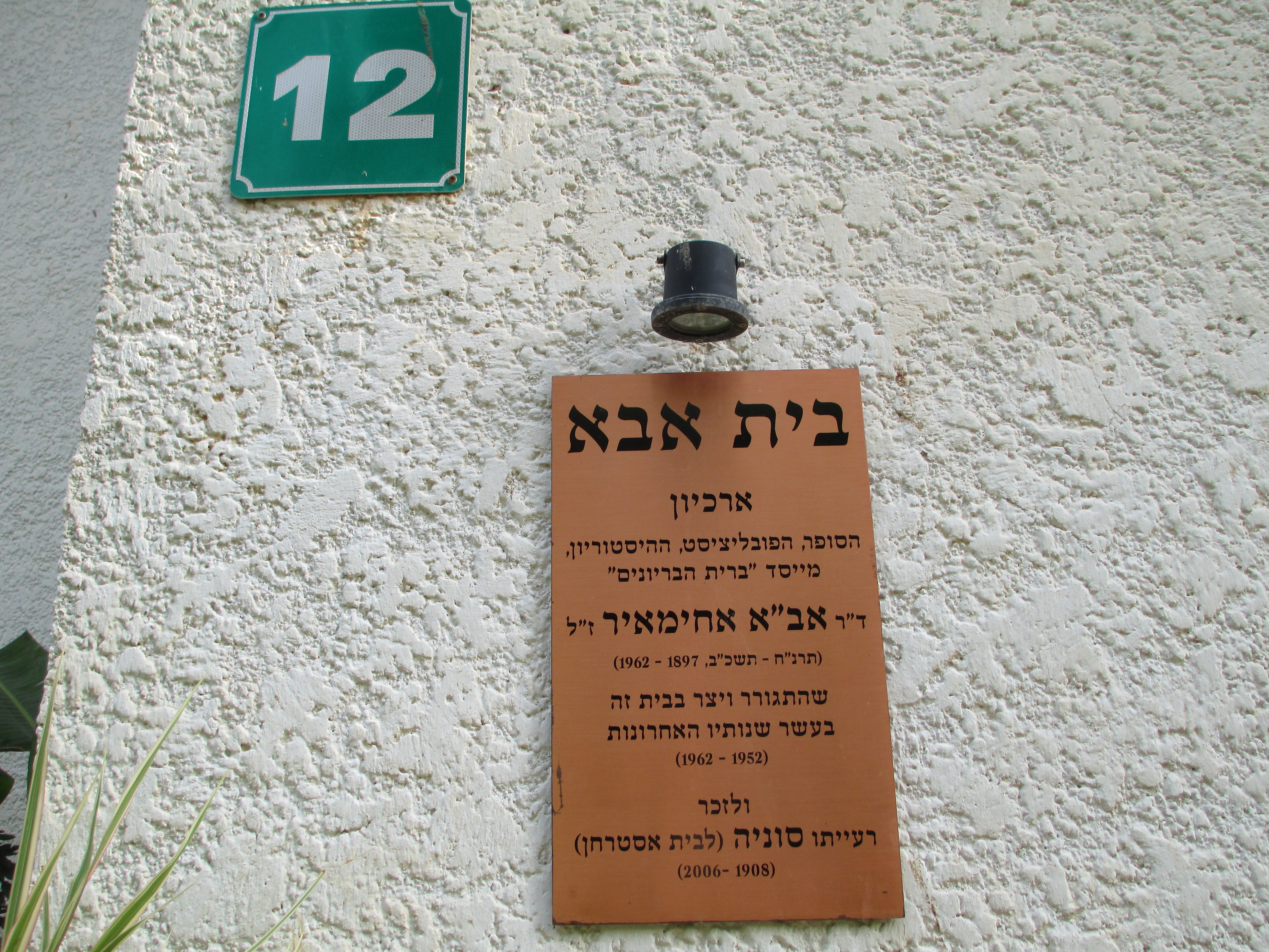 beit aba in ramat gan בית אבא ברמת גן, רח' ניצנים 12